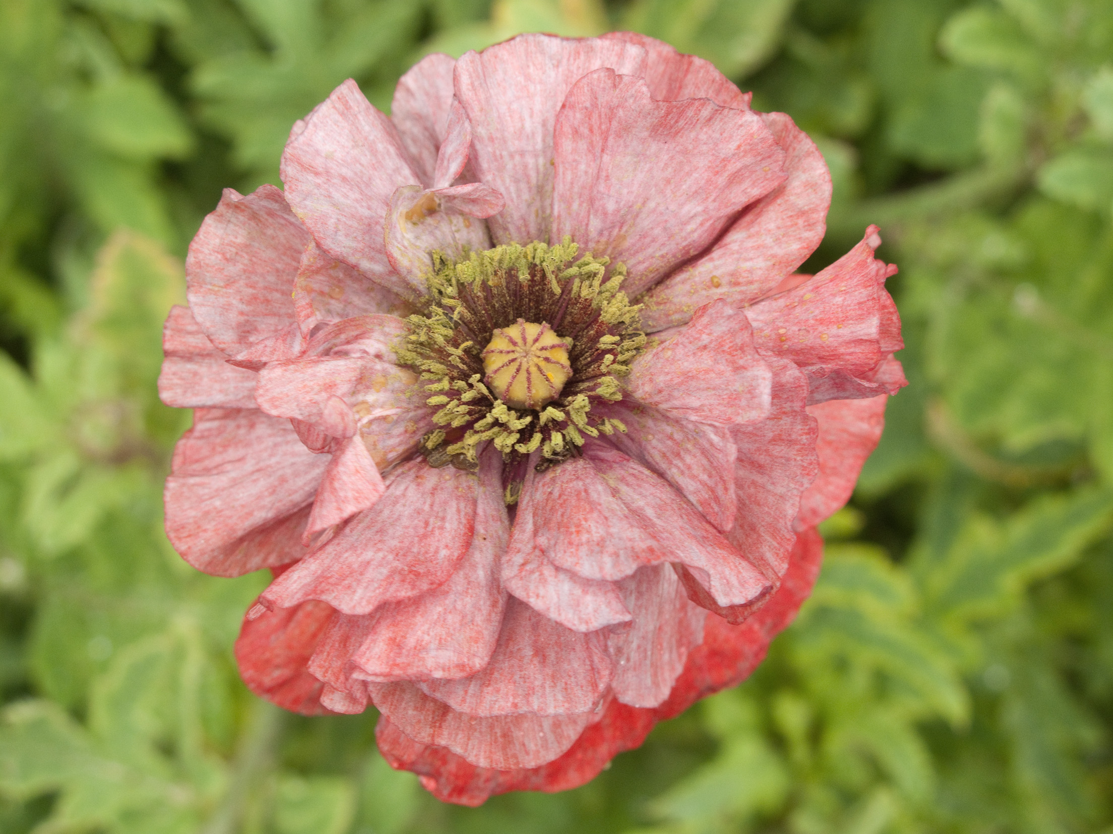 Shirley Poppy, a cultivated variety of Papaver rhoes.